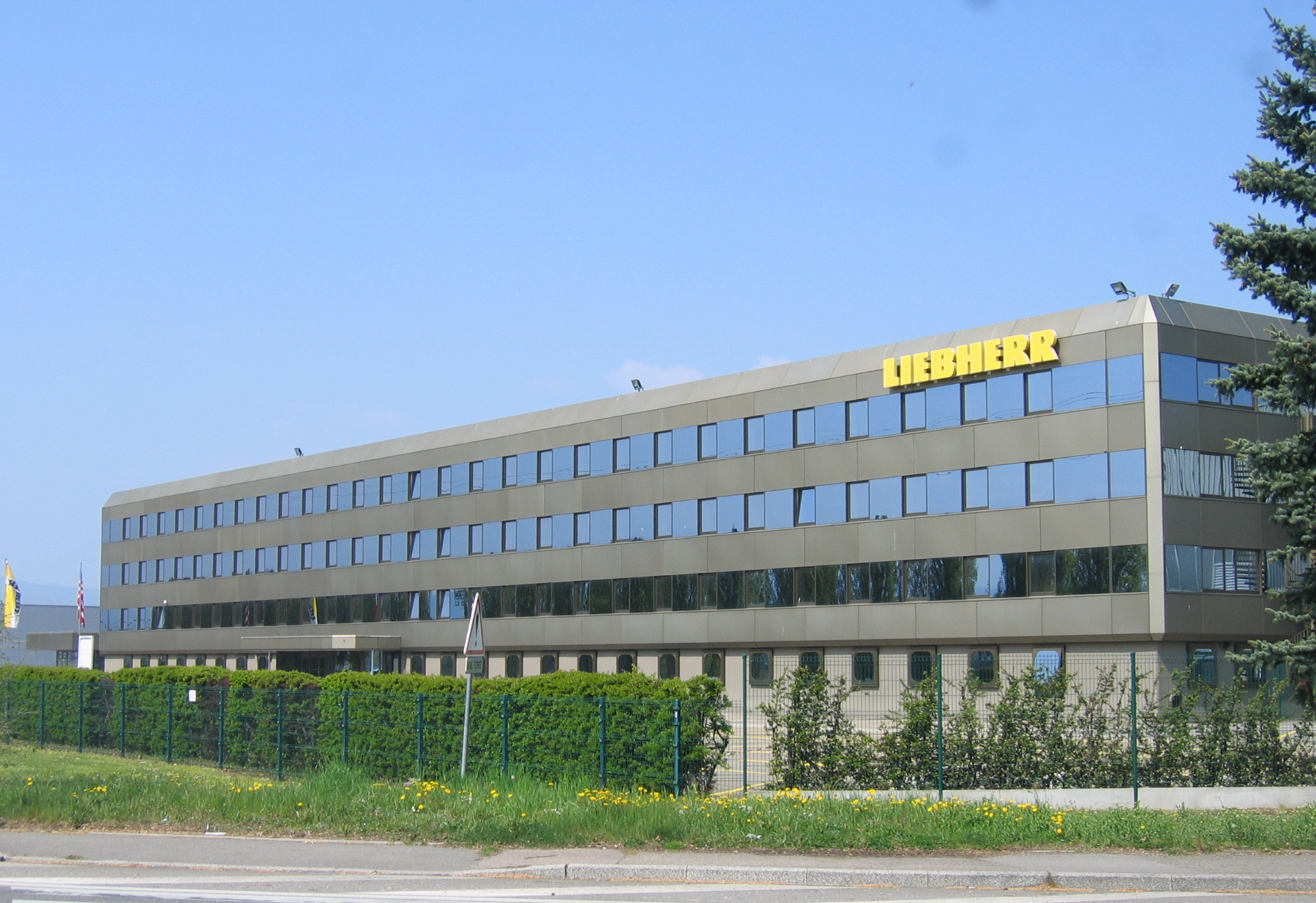 The administrative offices of the Liebherr factory in Colmar (Haut-Rhin, France).